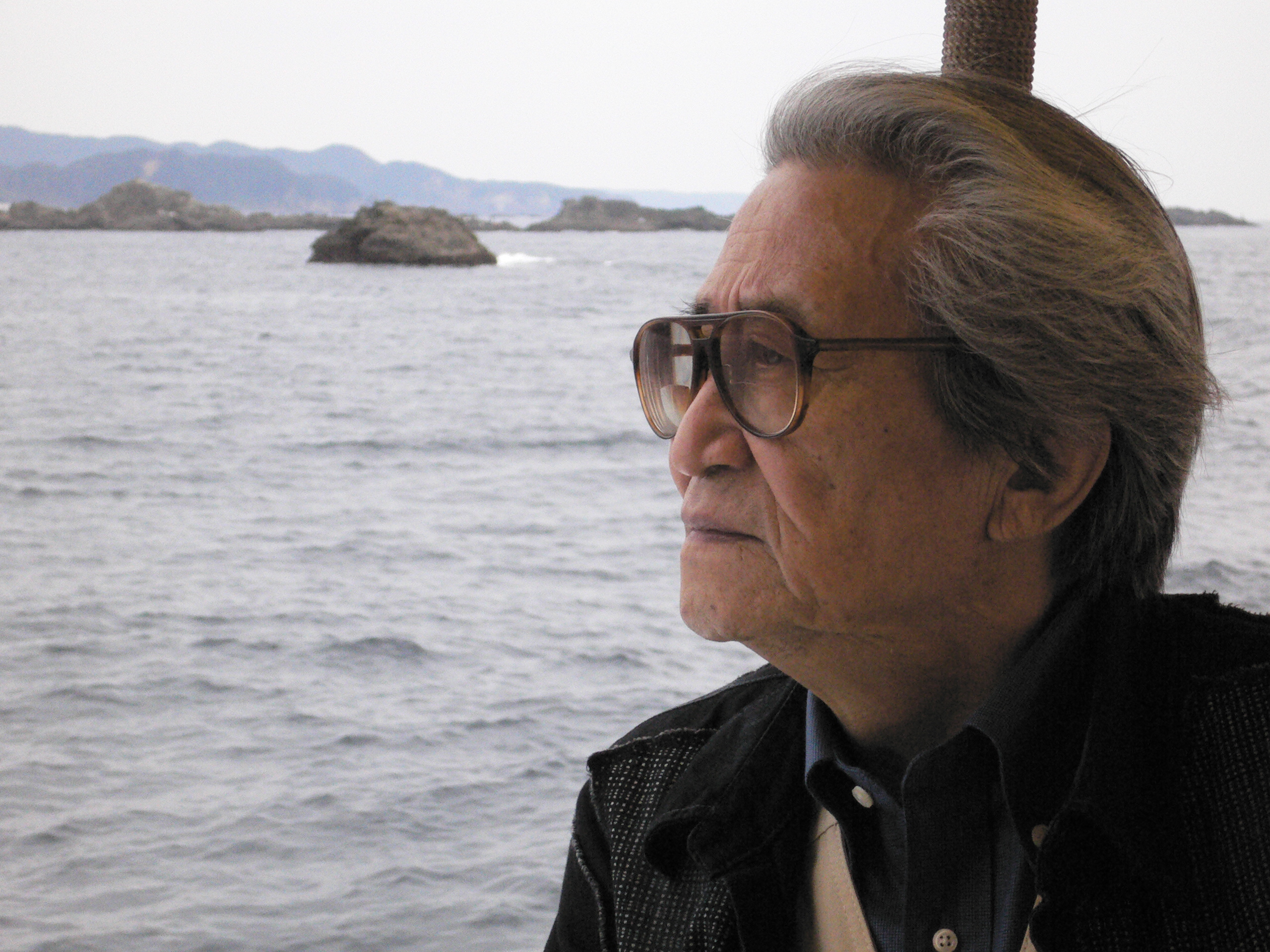 Photograph of the Japanese documentary filmmaker Noriaki Tsuchimoto in 2005